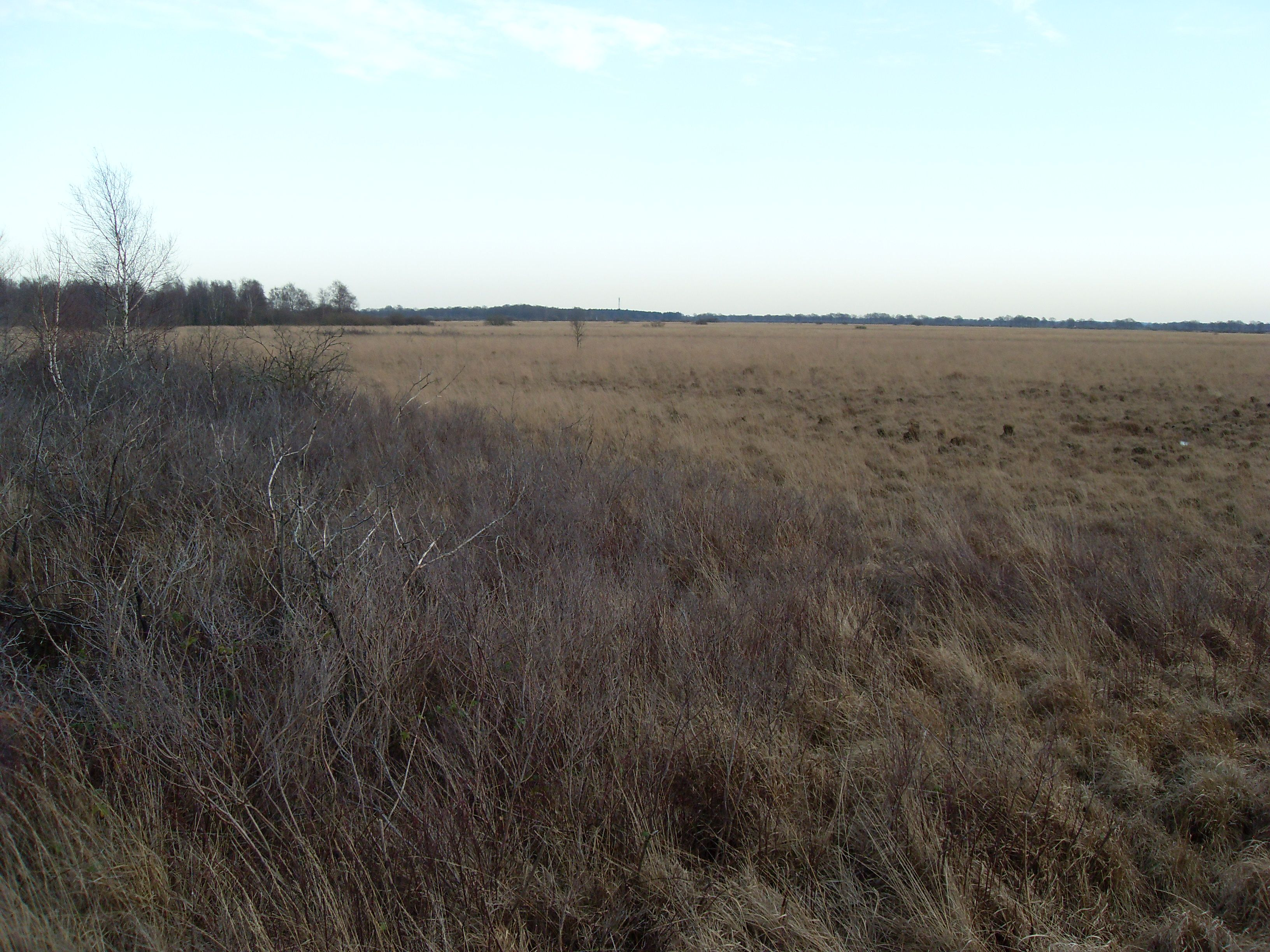 Nature reserve Tetenhusener Moor, Schleswig-Holstein, November 2009